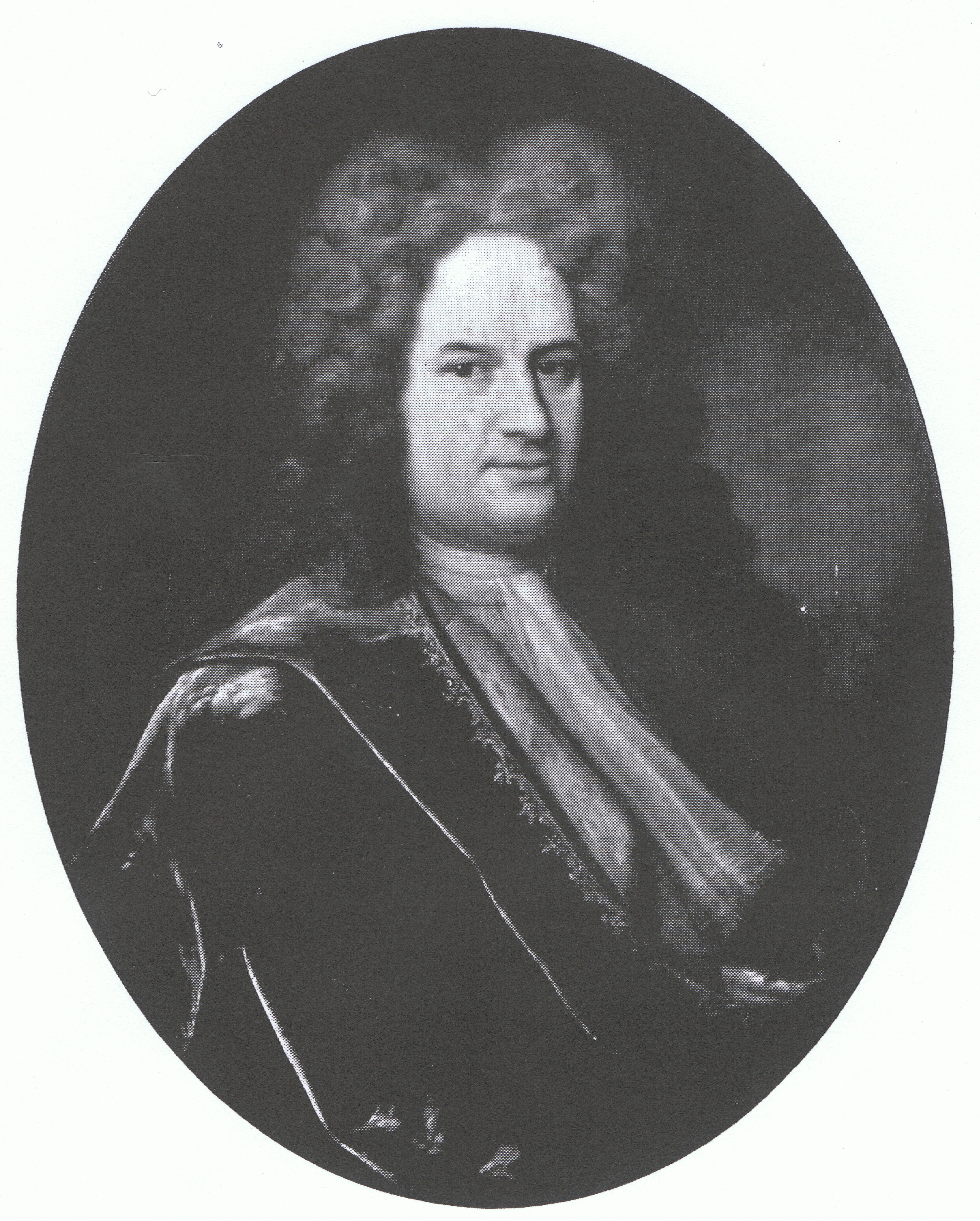 Scan (by me, R. de Salis, Rodolph (talk) 19:25, 23 January 2015 (UTC)) of James, Earl Stanhope, from a portrait by Denner at Chevening.